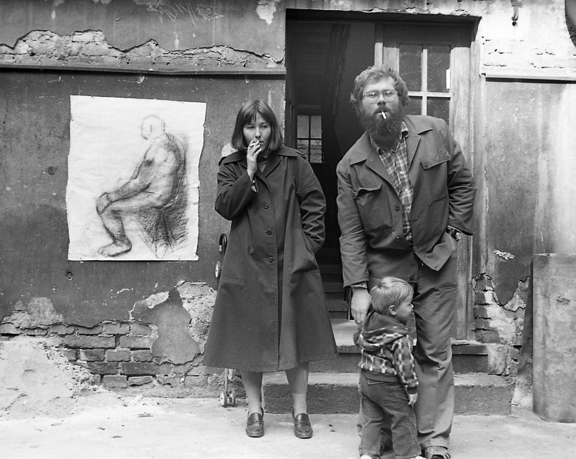 Jaroslav Horálek and his wife Helena in 1981